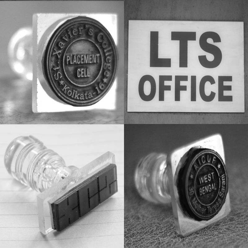 logos at St. Xaviers college Kolkata